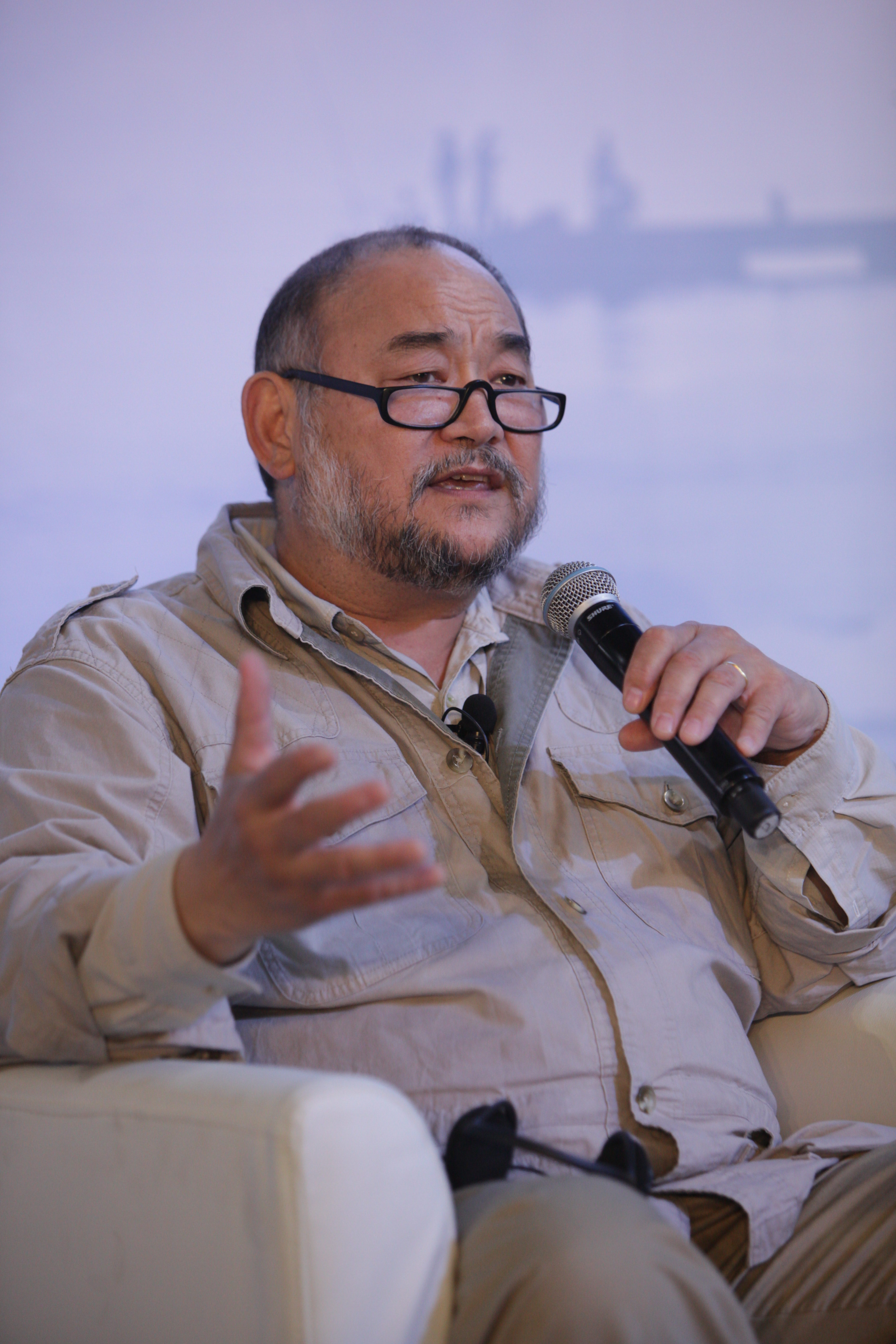 John D Liu, environmental film-maker, talking at the 2014 World Travel & Tourism Council's Global Summit in Hainan, China.